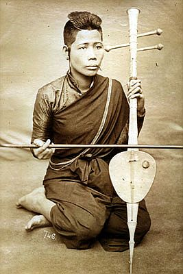 photography by Émile Gsell. Image of a three-stringed fiddle, known as a Tro Khmer.